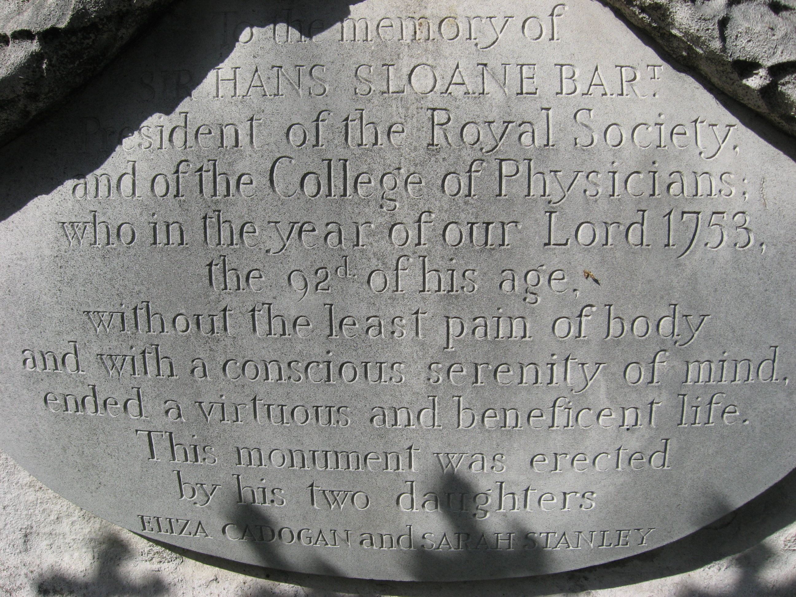 Hans Sloane Memorial inscription, Chelsea, London